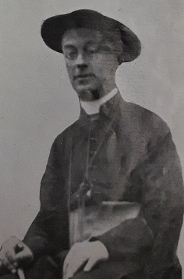 This is the picture of Monsignor Tito M. Cucchi